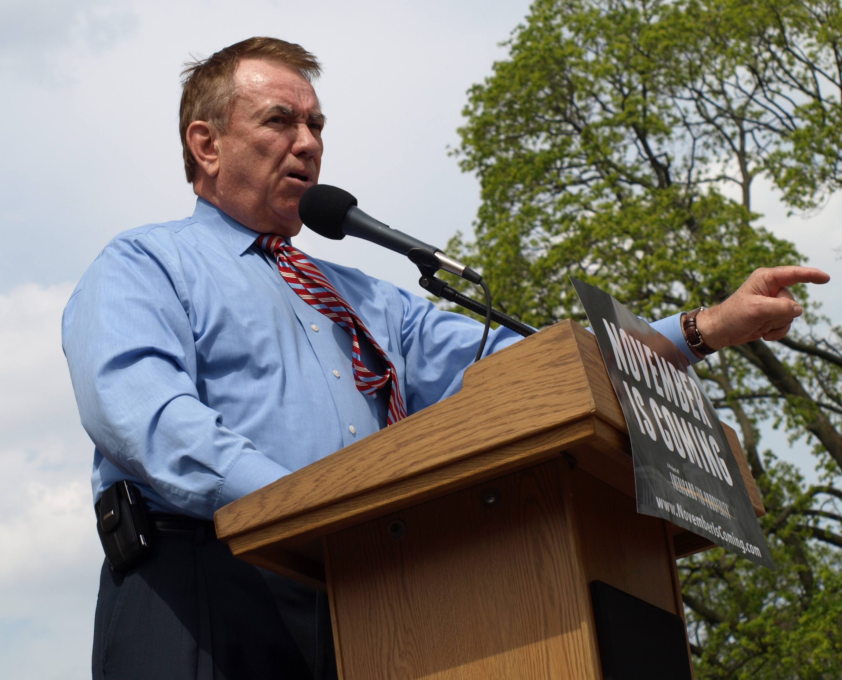 Former Wisc. Gov. Tommy Thompson addresses a Tea Party rally in Madison, Wisconsin on April 15, 2010, and also announces he will not run for U.S. Senate and challenge incumbent Sen. Russ Feingold. Background articles